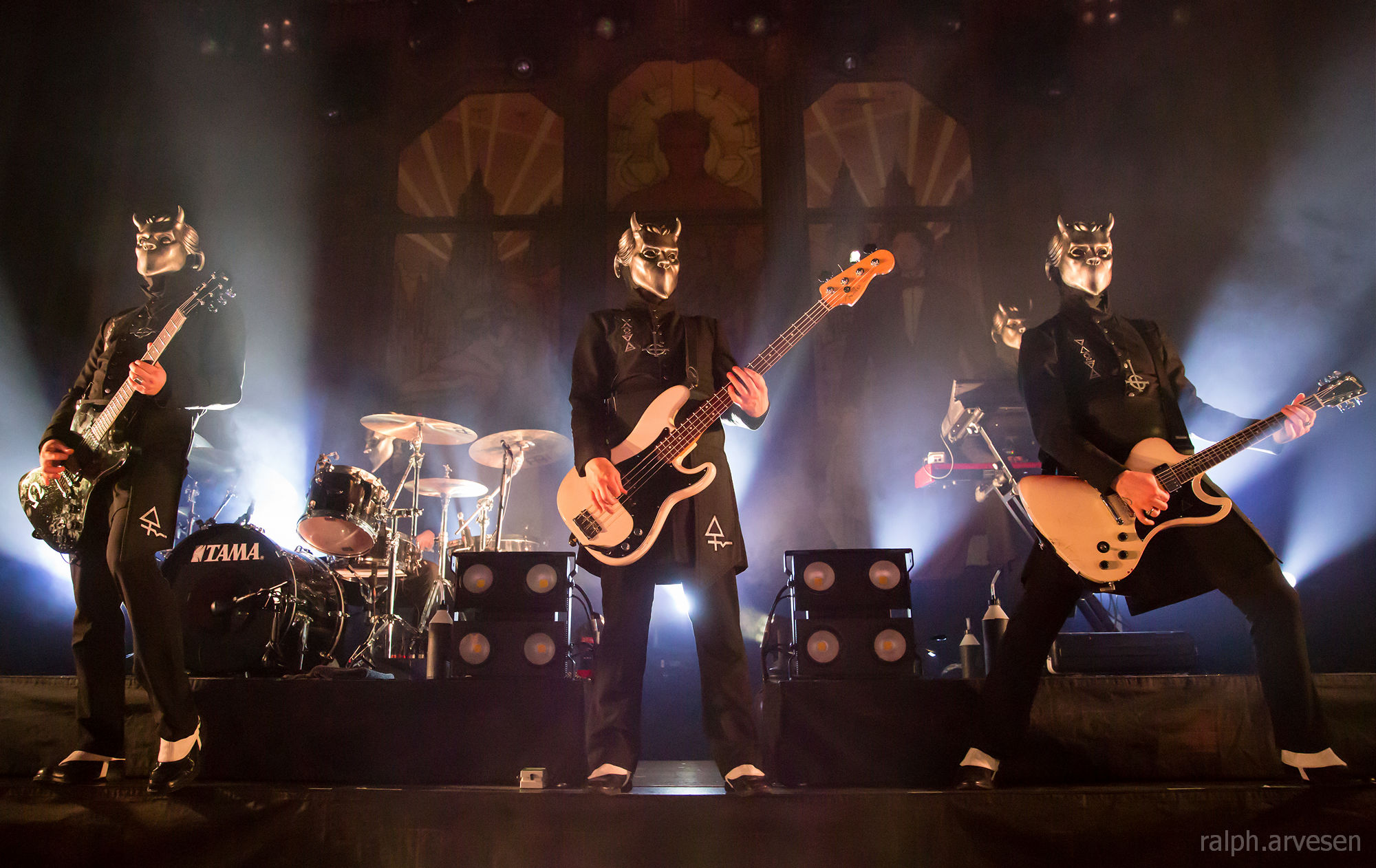 Ghost performing at Emo's in Austin, Texas on April 25, 2016.